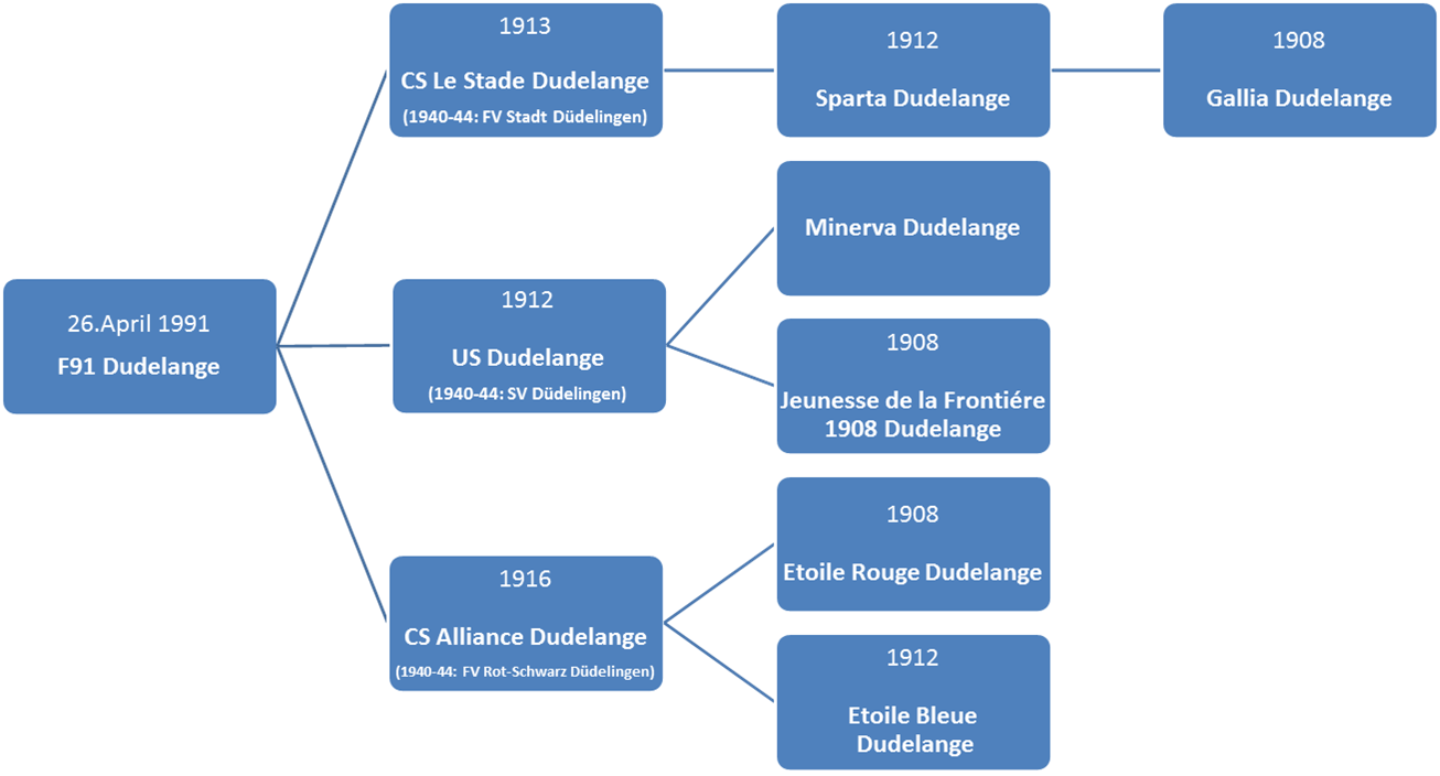 Simplified illustration of origin of F91 Dudelange